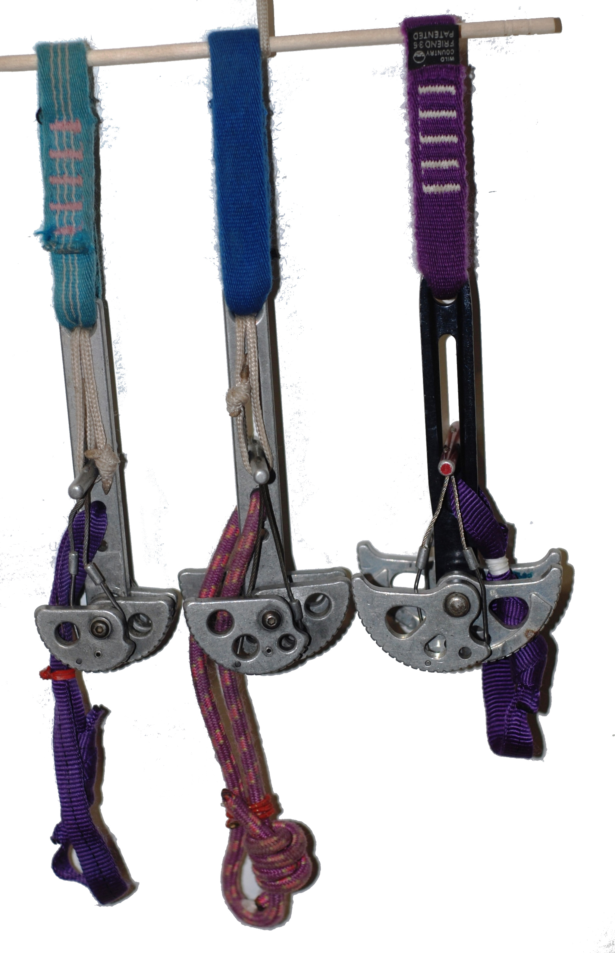 Wild Country Friends - type of climbing cam